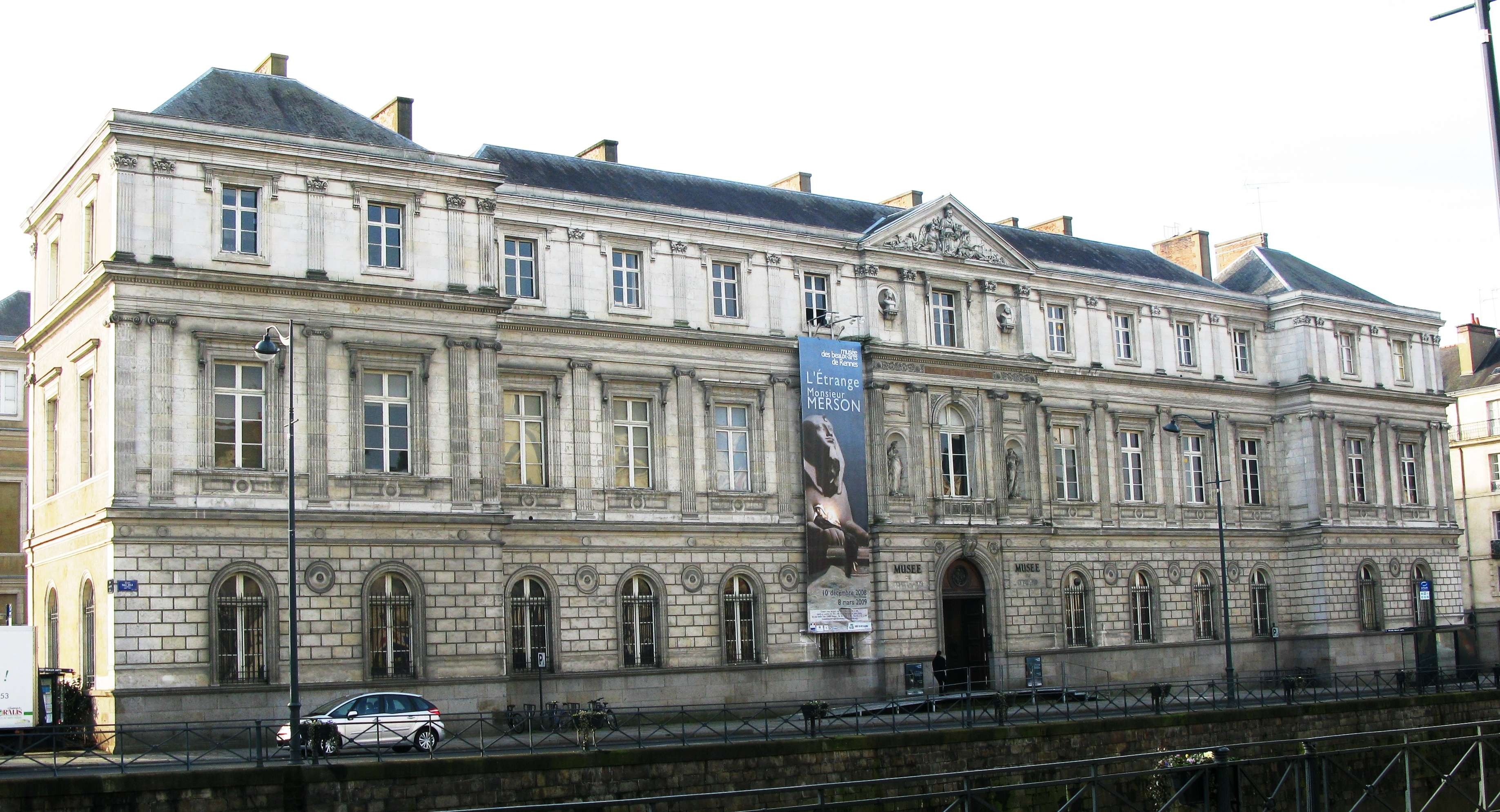 View of the Musée des Beaux-Arts in Rennes, France. The building was originaly built for the University of Rennes